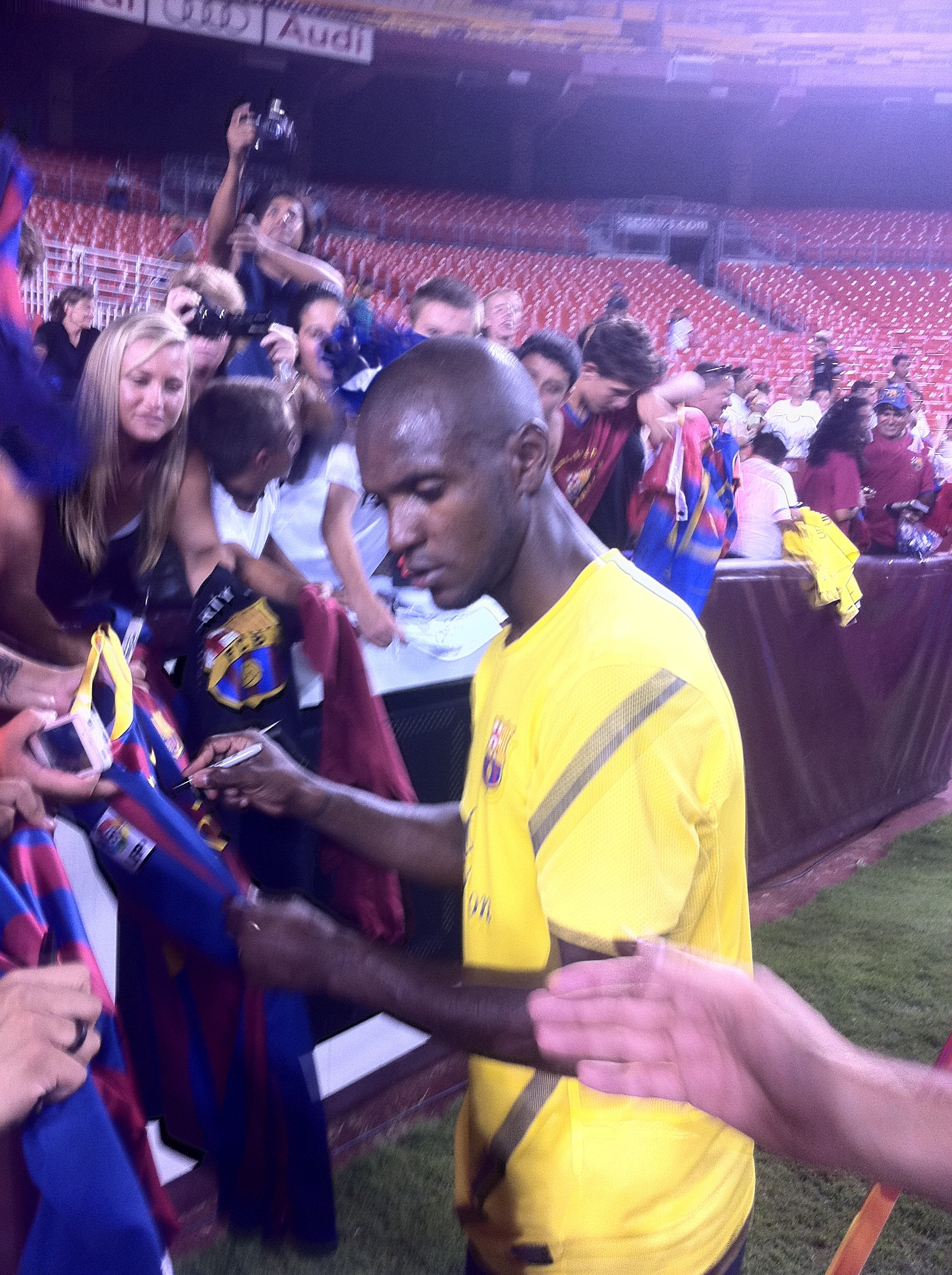 Barcelona defender Abidal signing autographs after practice in D.C.